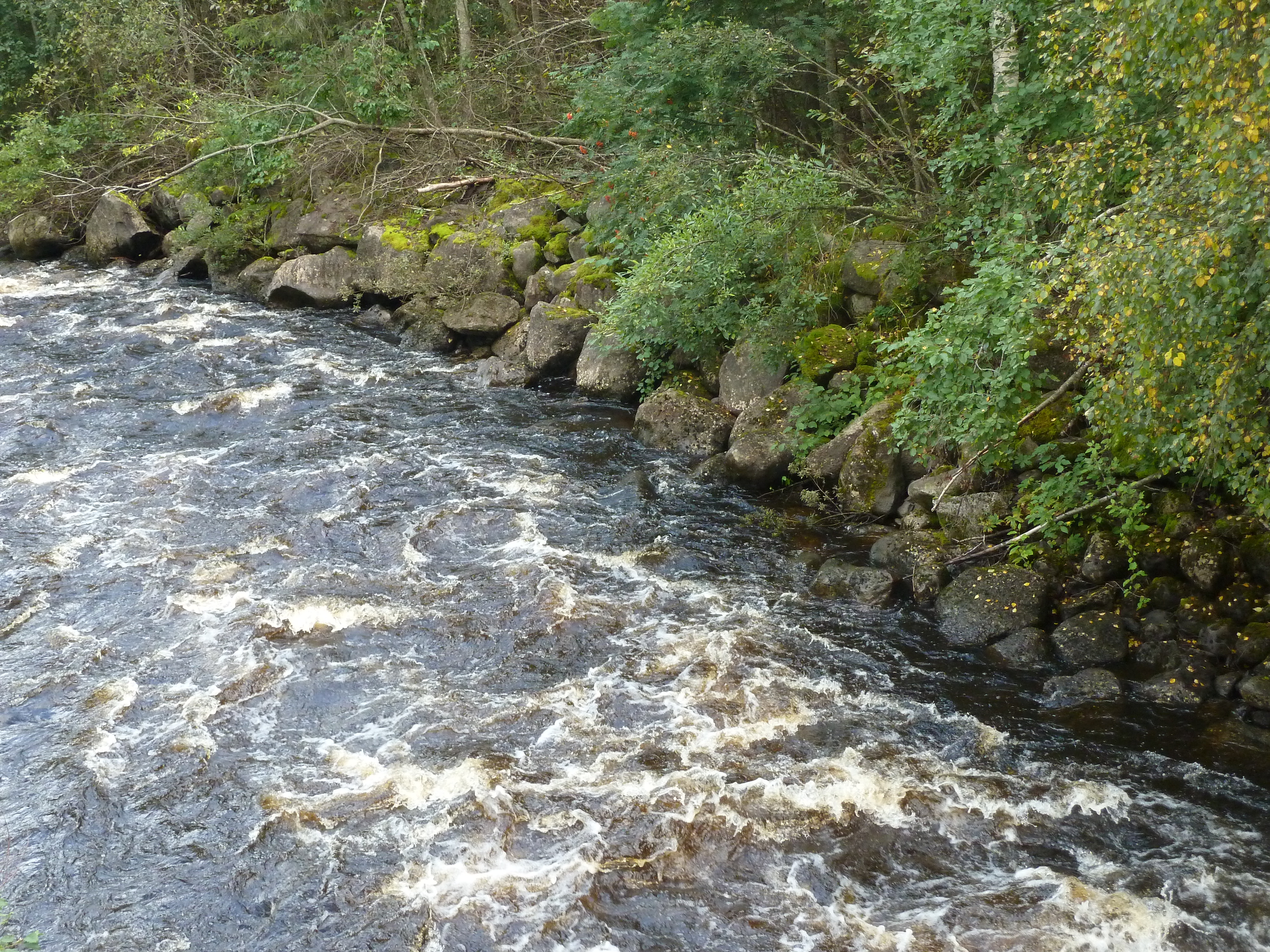 Rapids in the Södra Anundsjöån, Ångermanland, Sweden.